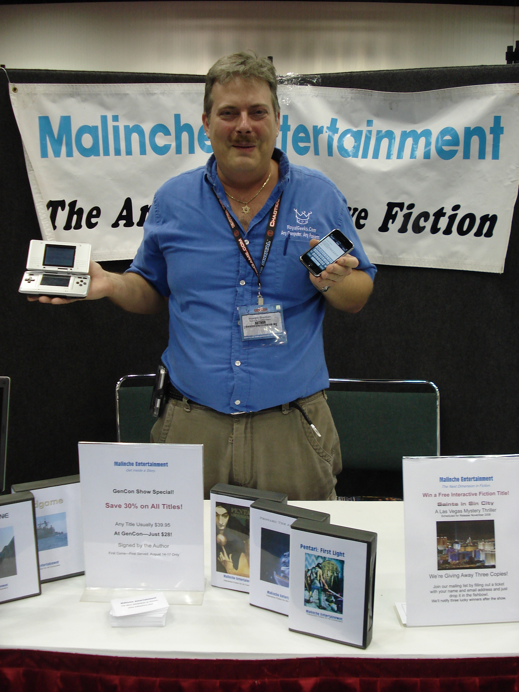 Photograph of Howard Sherman of Malinche Entertainment. He is pictured here at Gen Con Ind 2008 in the "Author's Alley" in the exhibit hall, where he was promoting his company. He is holding an iPhone and a Nintendo DS, two systems on which he publishes interactive fiction. The photograph was taken 2008-08-14, some time between the hours of 10 AM and 6 PM.